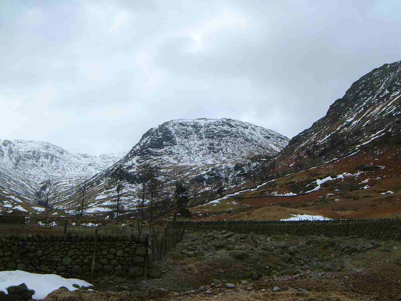 Seathwaite Fell from Seathwaite. Personal photograph taken by Mick Knapton on 21st March 2006